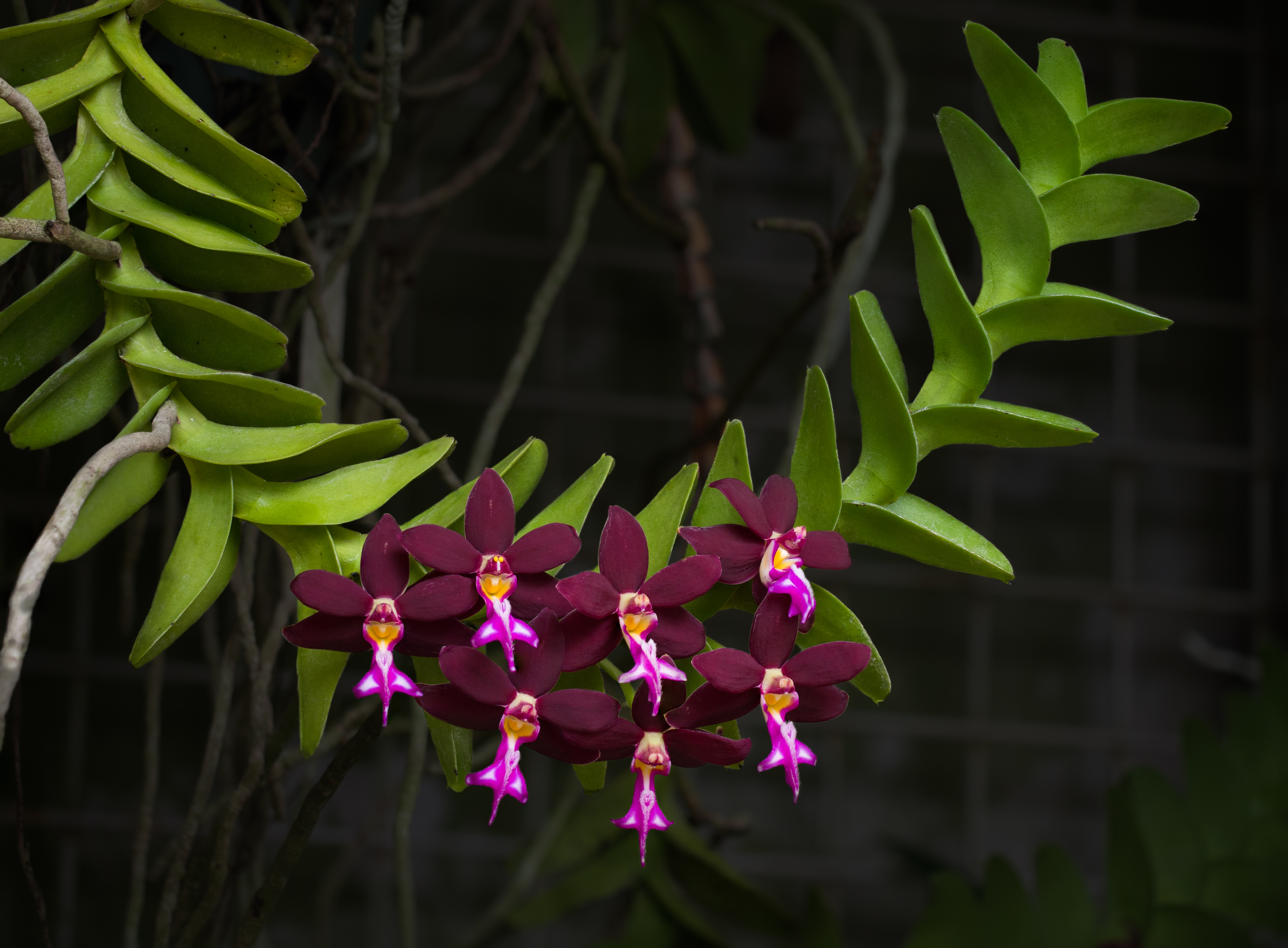 Dark purple Trichoglottis (Trichoglottis atropurpurea) in Brooklyn Botanic Garden.